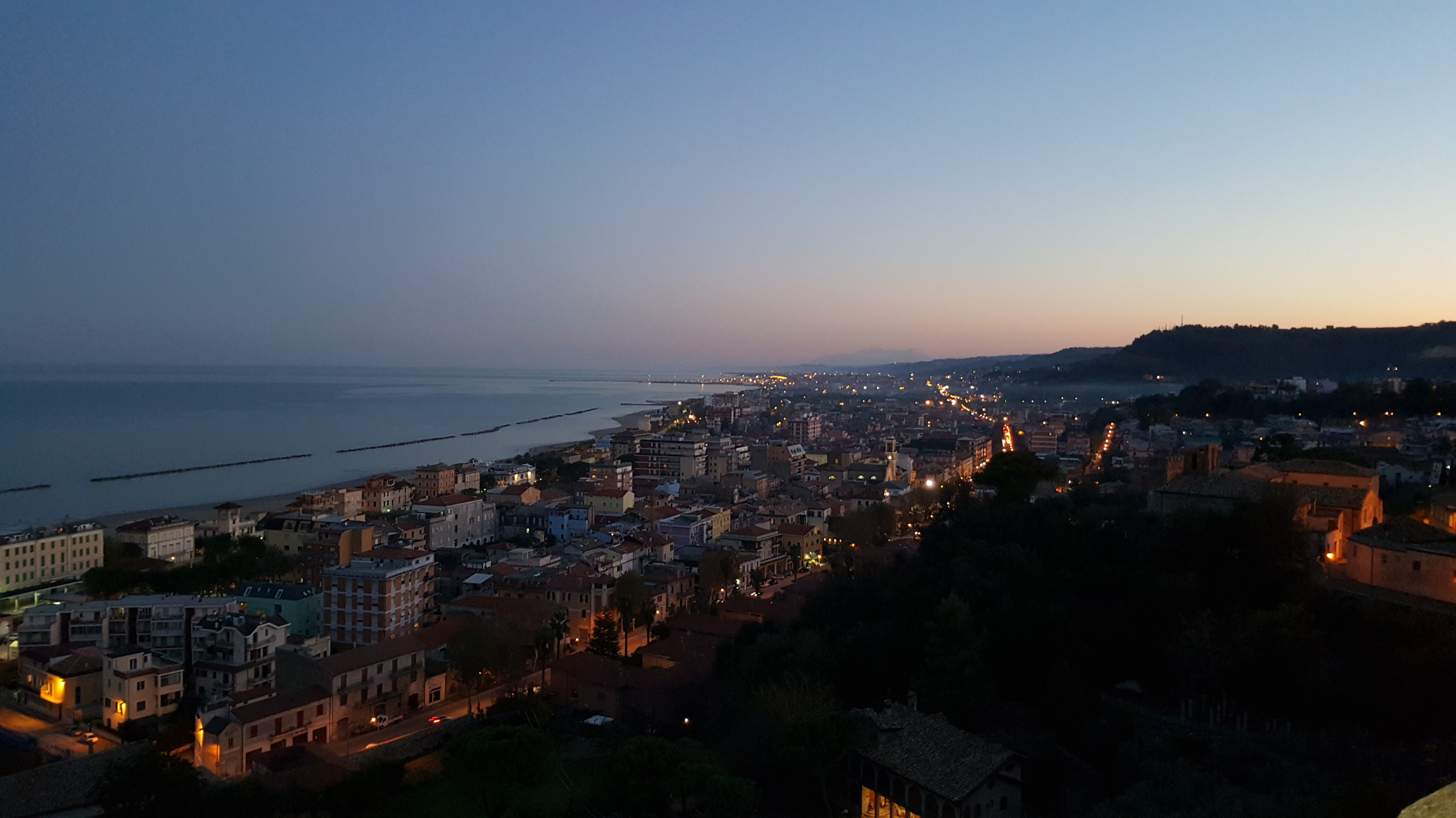 Overview of the cities of Grottammare below and San Benedetto del Tronto above, during sunset.